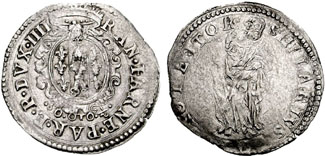 Italy, Parma. Ranuccio I Farnese. 1592-1622. AR Giulio (2.80 g). Crowned ducal coat-of-arms in ornate frame St. Hilarius standing facing, raising hand in benediction and holding Gospels. CNI IX pg. 491, 77.